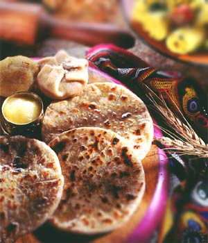 The picture shows the "Puran Poli" a Gujarati Cuisine. It made of Sweet lentil stuffed chapati.